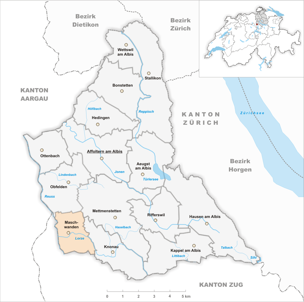 Municipality Maschwanden